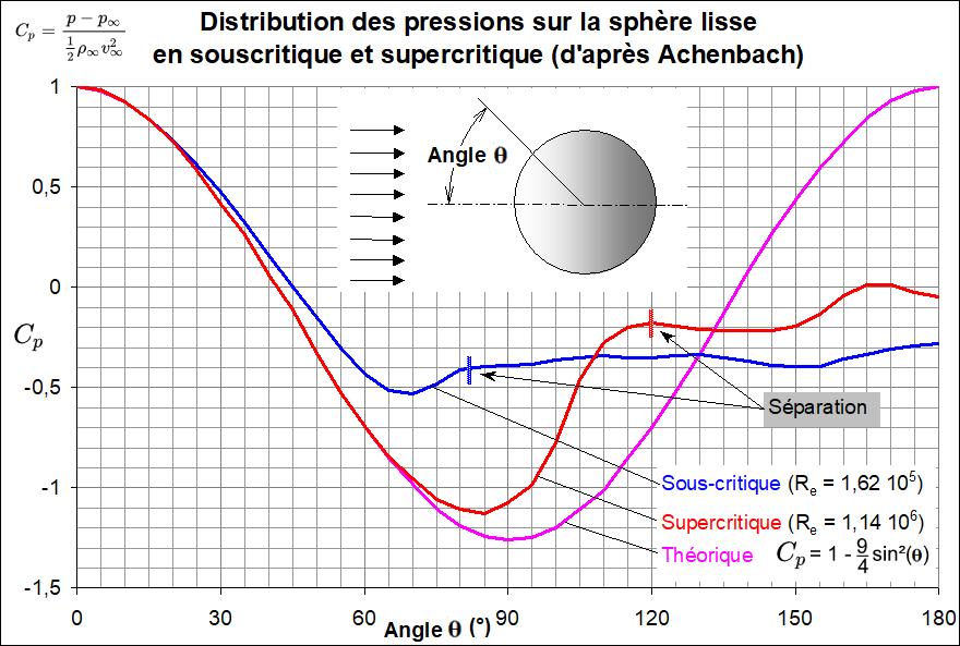 Pressure distribution (Cp) on the sphere after Achenbach, theoretical and according to the Reynolds based on diameter. According to Experiments on the flow past spheres at very high Reynolds numbers, by Elmar ACHENBACH [2].